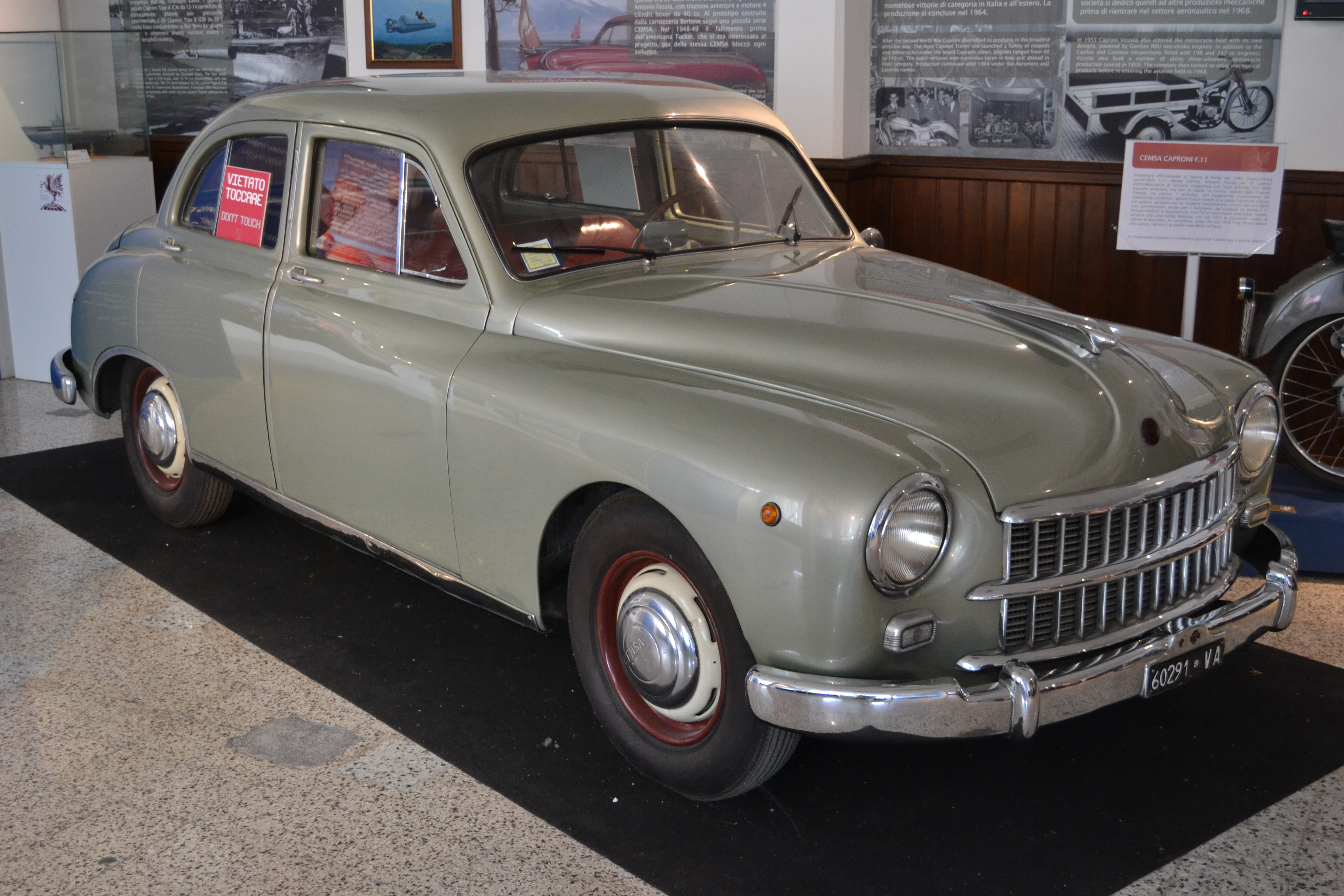 A three-quarter front view of the Cemsa Caproni F.11 on display at the Volandia aviation museum, Varese, Italy.